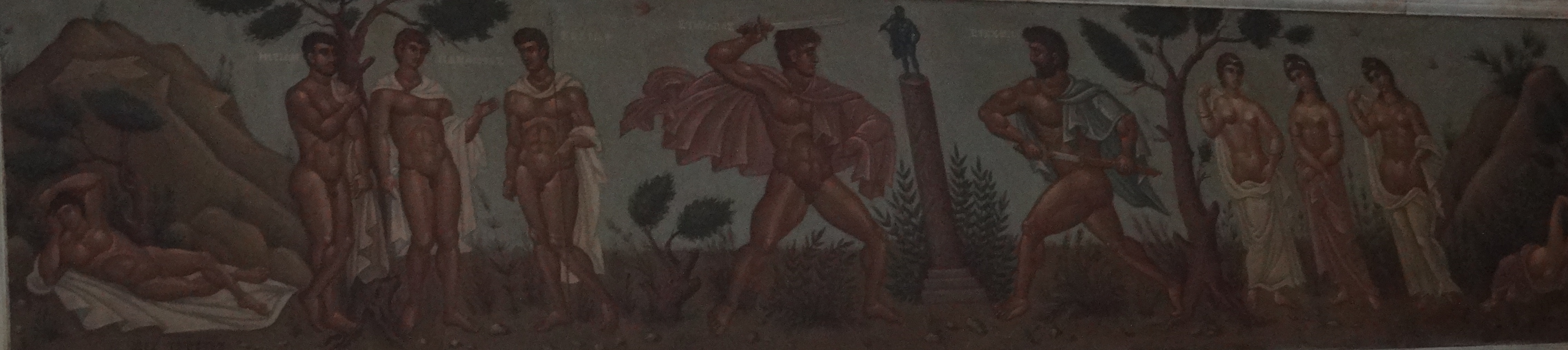 Painter F.Kondoglou, Murals in the Municipality of Athens -1938